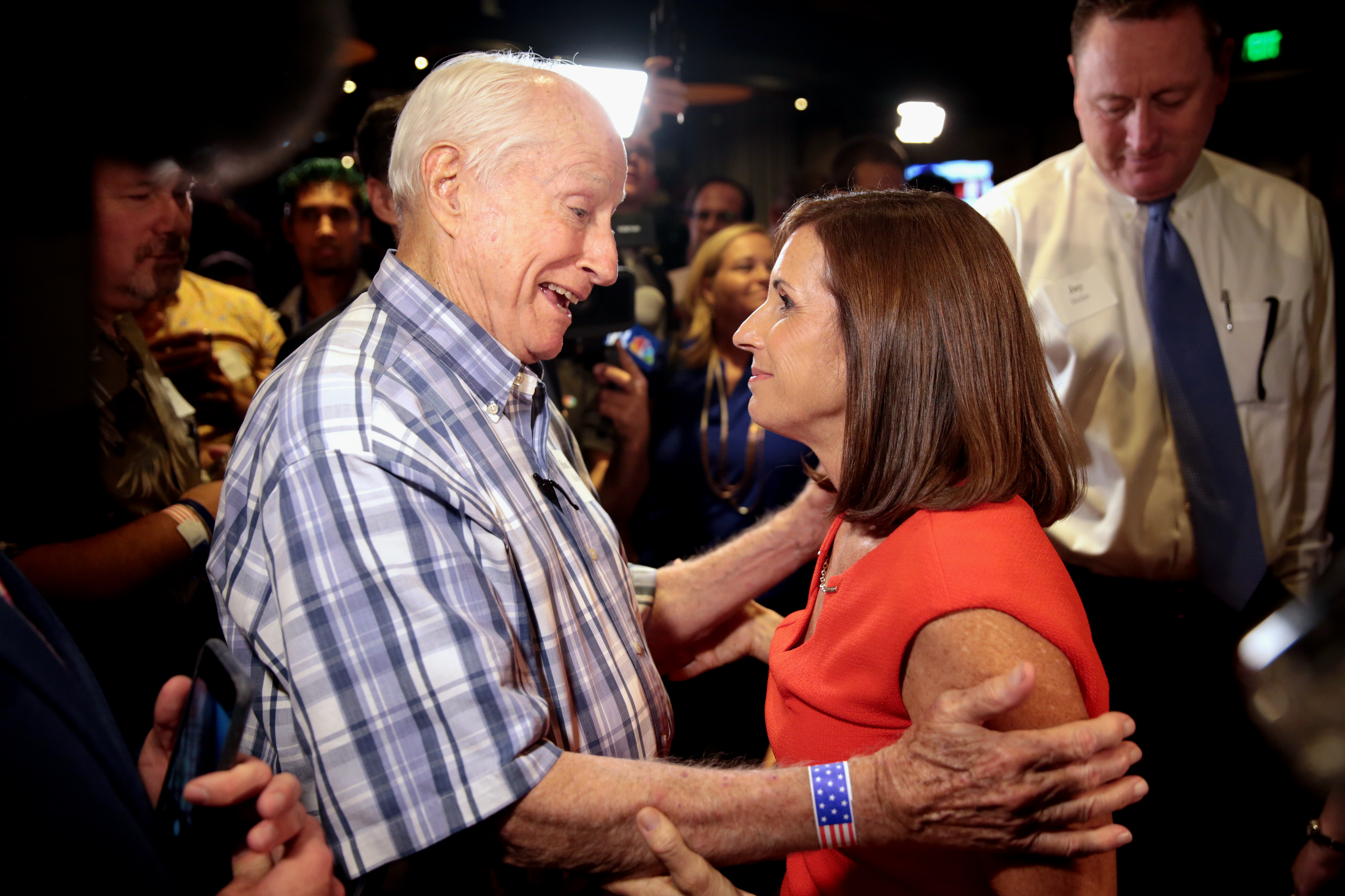 Former U.S. Congressman Jim Kolbe speaking with U.S. Congresswoman Martha McSally at a primary election night victory party, for the U.S. Senate race in Arizona, at Culinary Dropout in Tempe, Arizona.